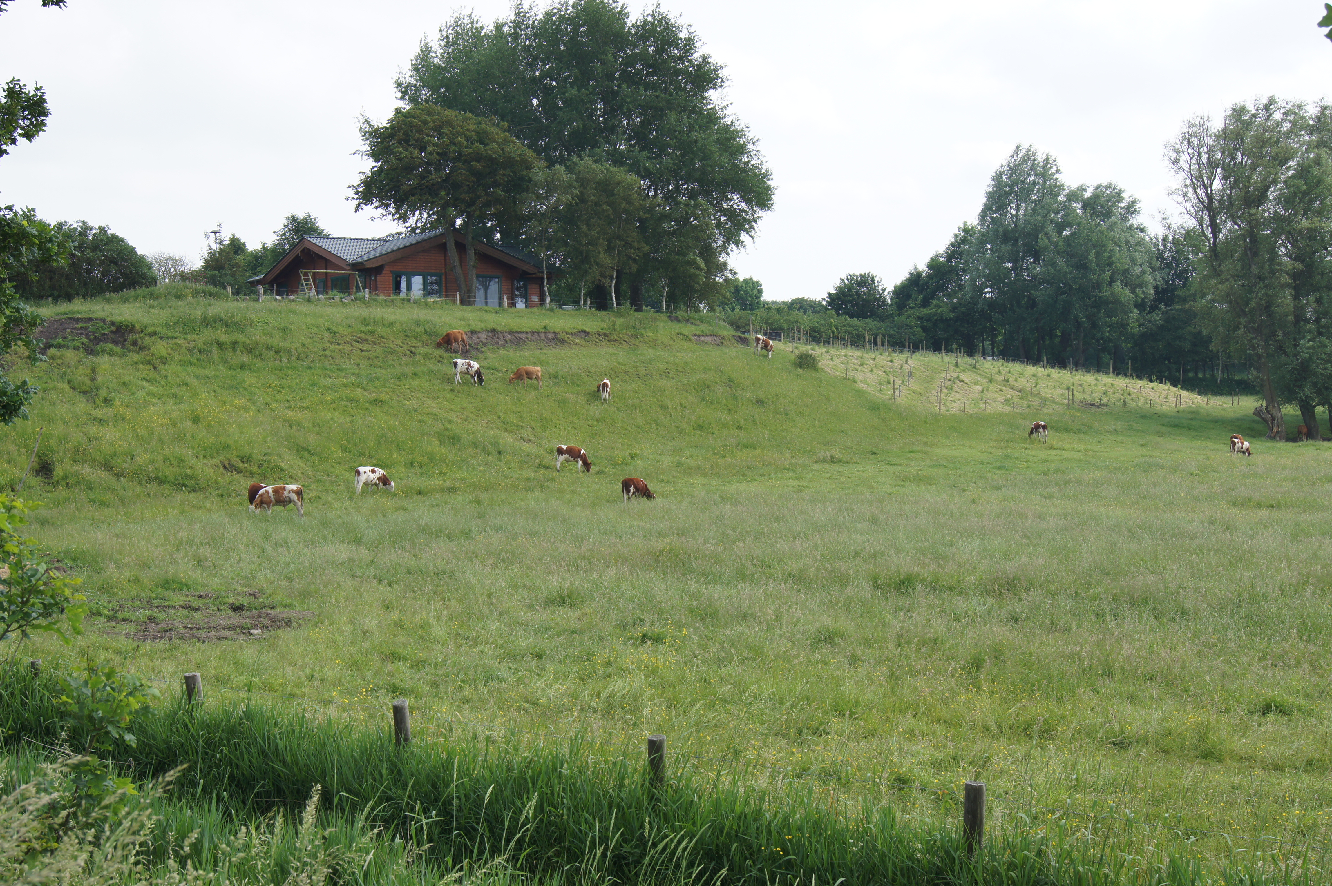 Kleve (Dithmarschen), Germany: The town on the border of the Geest and the marsh